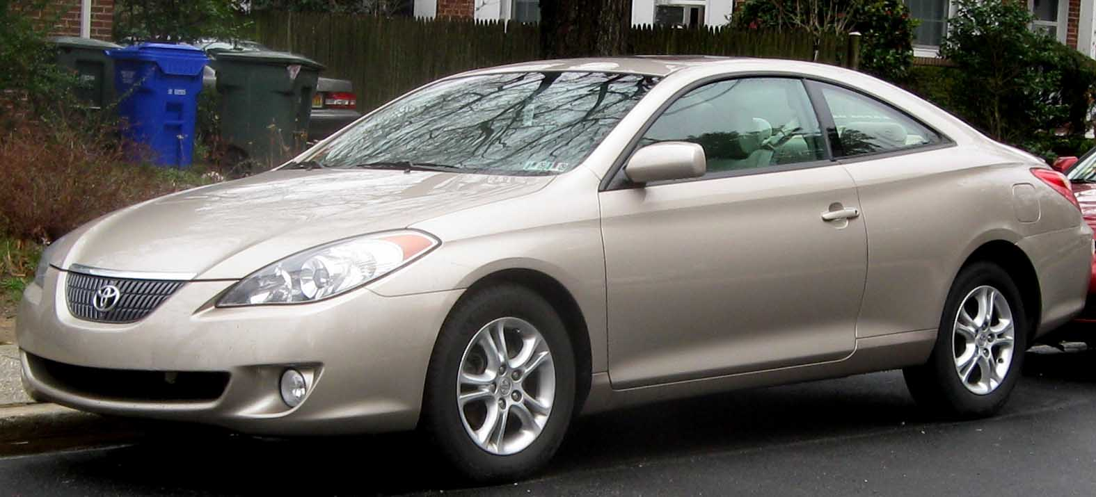 2004-2006 Toyota Solara photographed in College Park, Maryland, USA.